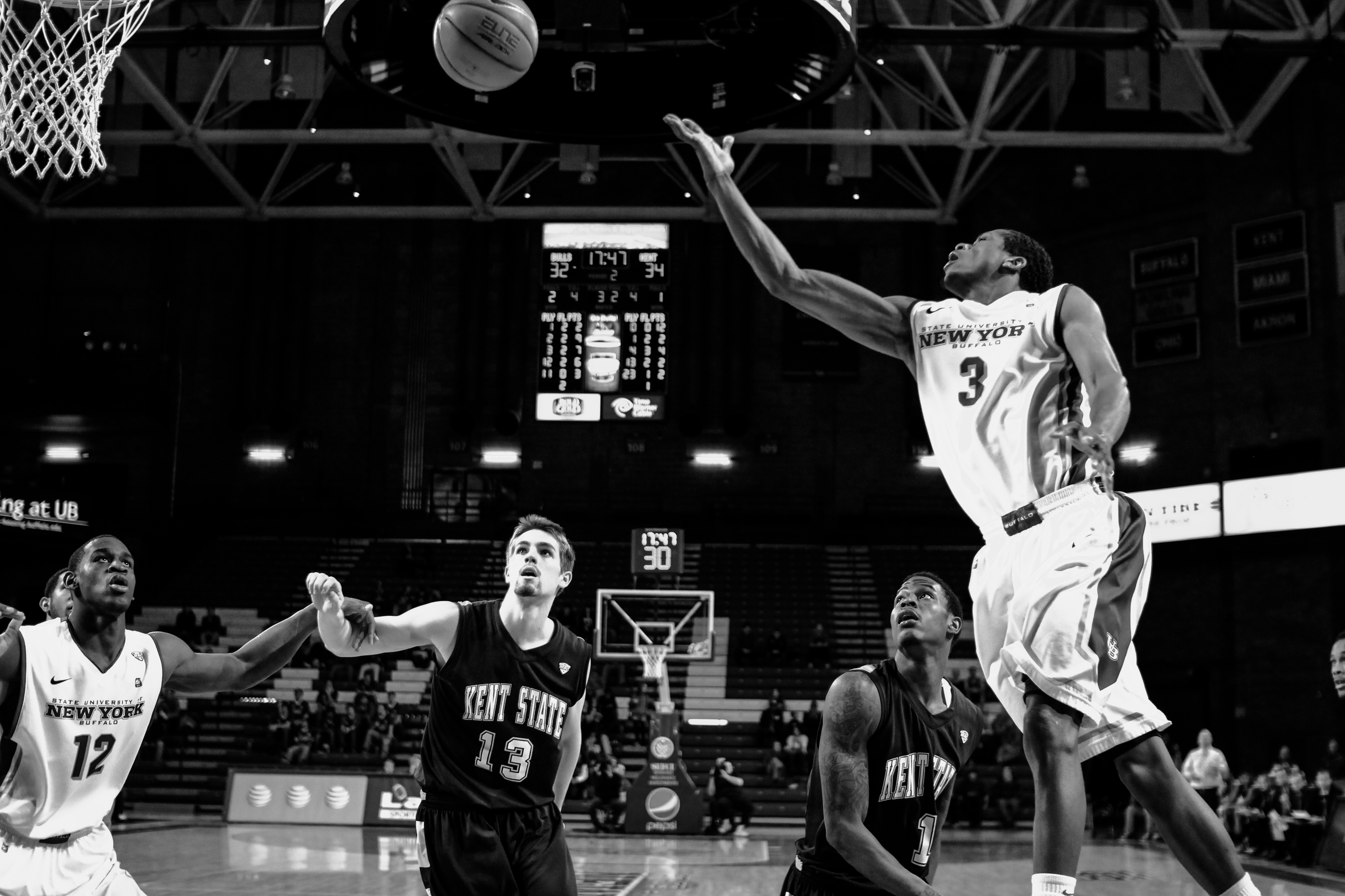 Buffalo Bulls defeats Kent State Golden Flashes 71-60